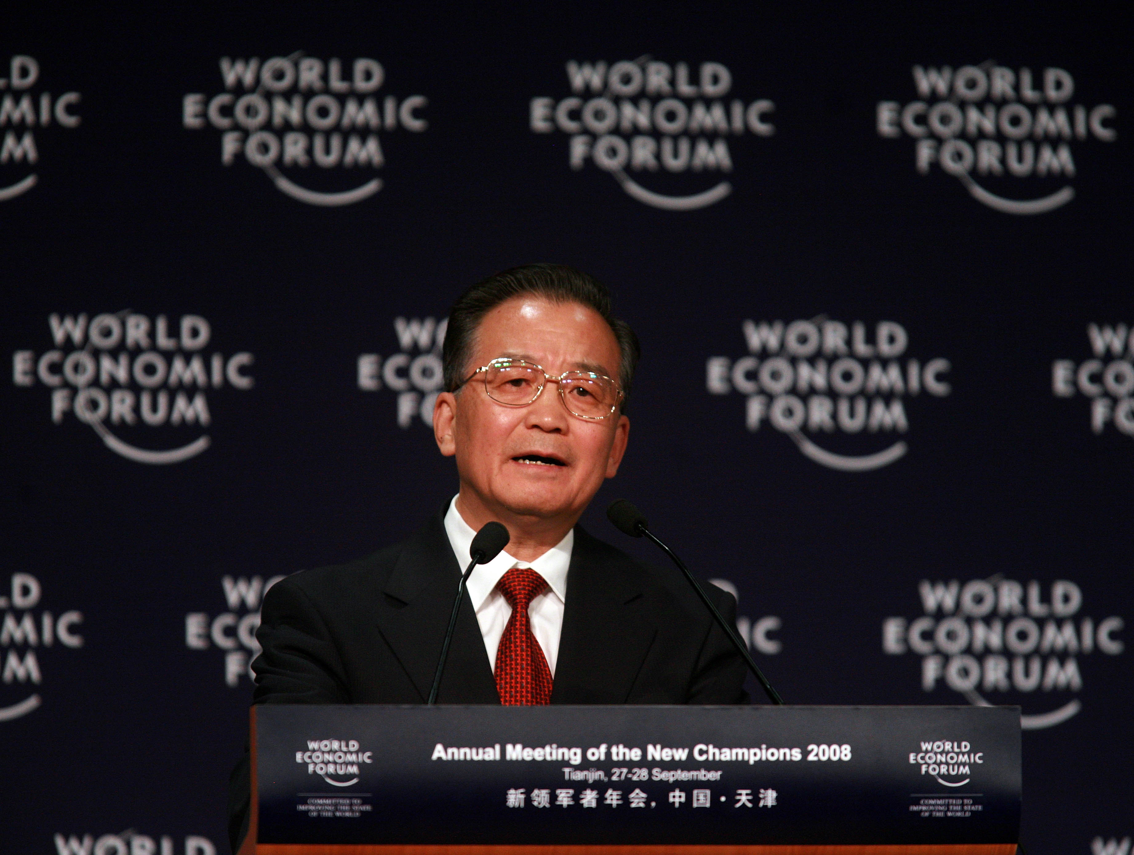 TIANJIN/CHINA, 27SEPT08 - Wen Jiabao, Premier of the People's Republic of China, speaks at the Opening Plenary session at the World Economic Forum Annual Meeting of the New Champions in Tianjin, China 27 September 2008. Copyright World Economic Forum ( by Doug Kanter